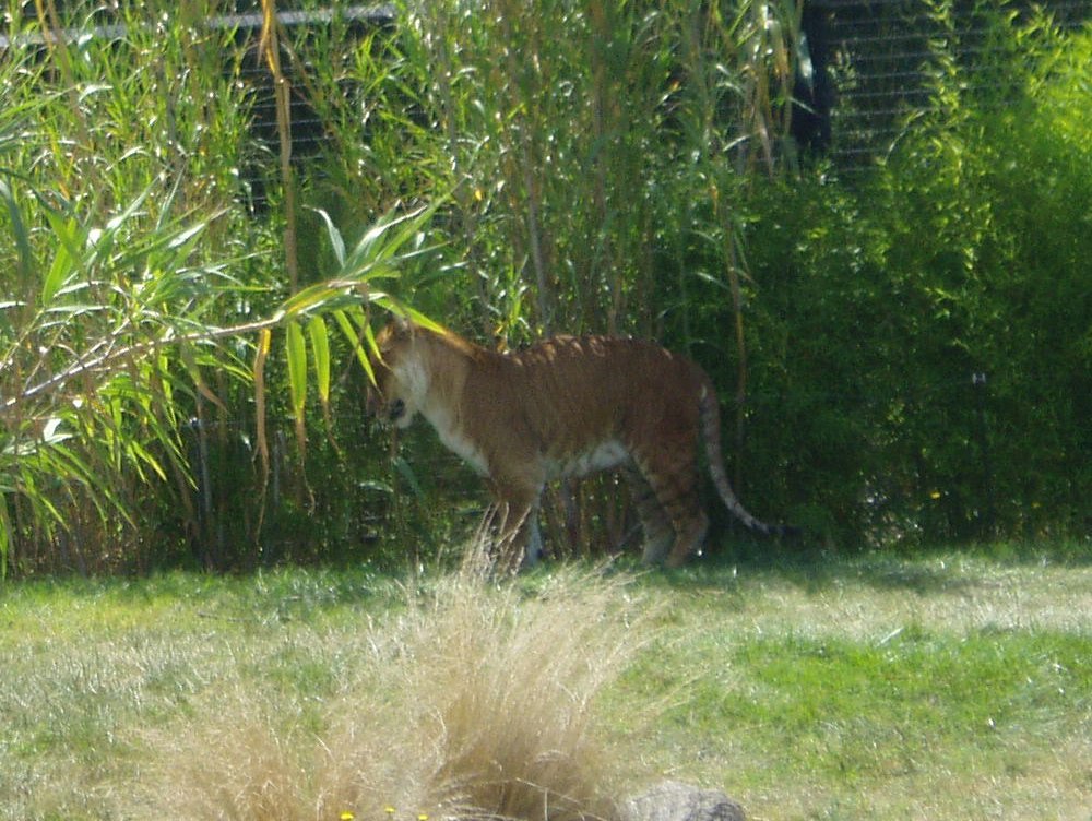 Tigon at Canberra Zoo.